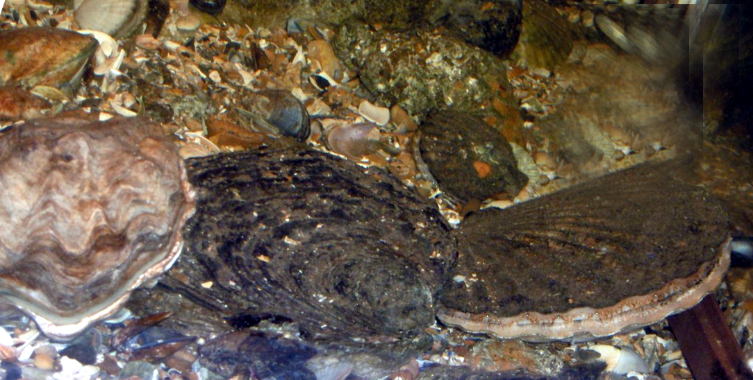 Species Pecten maximus Family Pectinidae The Great Scallop (Pecten maximus) on the right, next to the Native Oyster (Ostrea edulis)